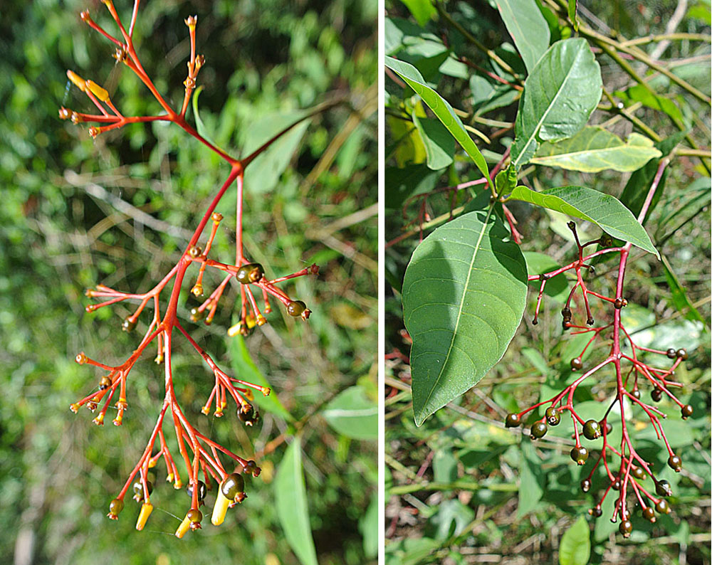 Native to Paraguay and adjacent parts of Argentina and Brazil. Photo from the Brazil-Argentina border.